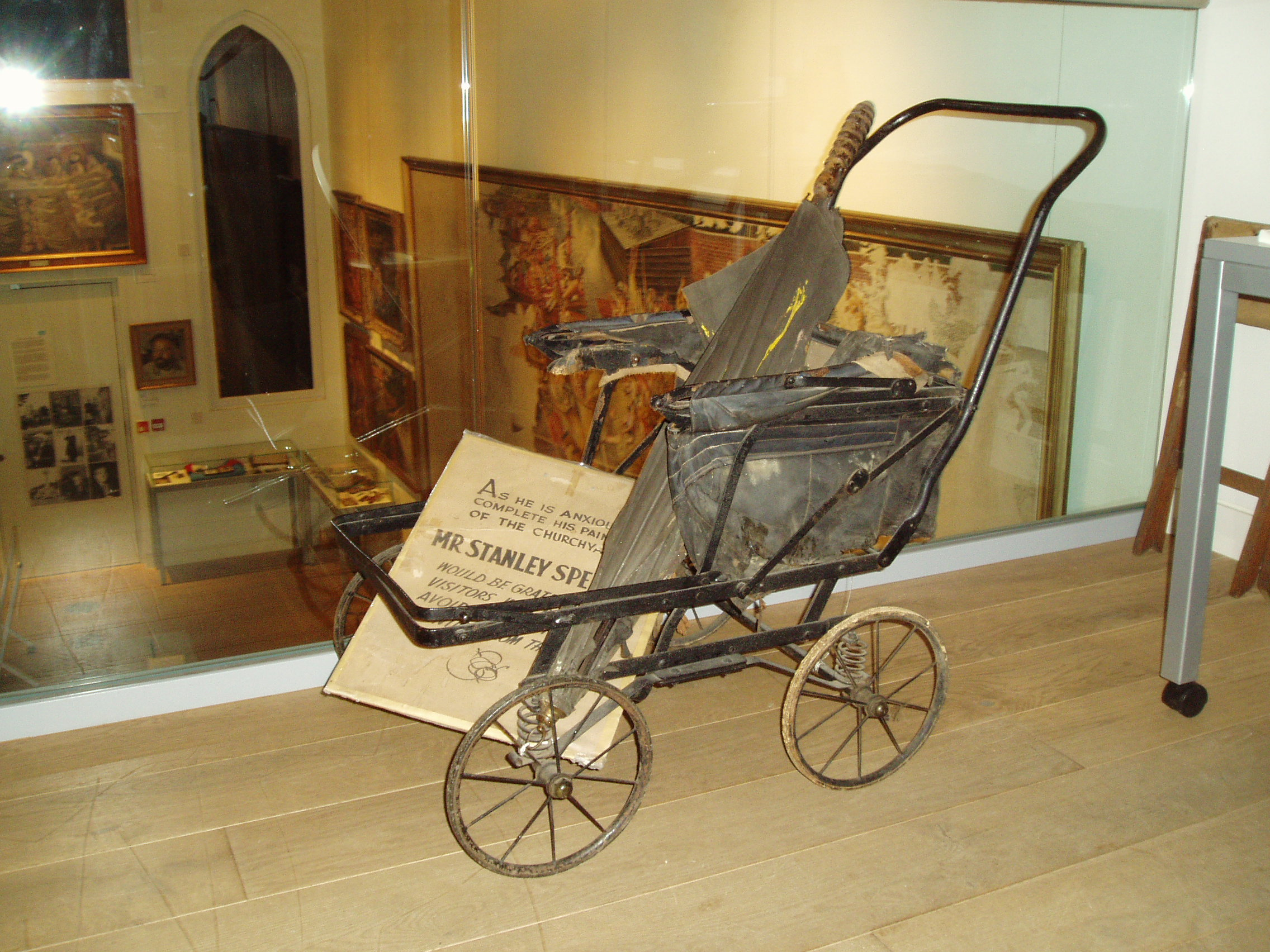 The pram used by Spencer to transport his materials.